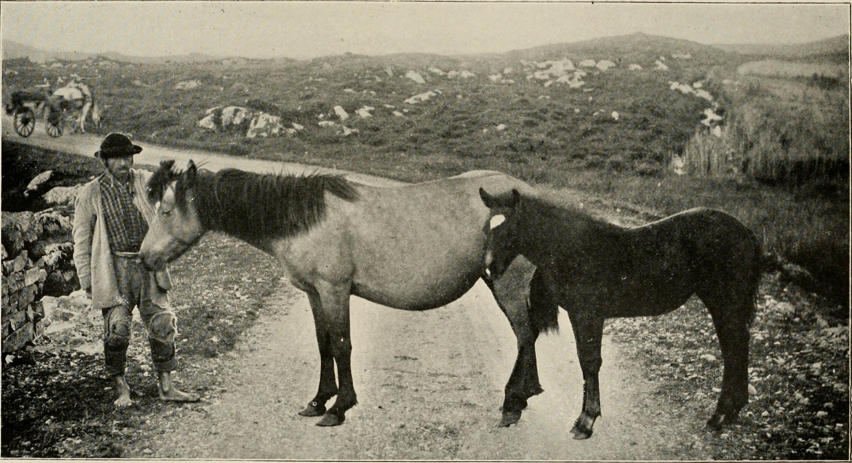 Title: Ireland; industrial and agricultural Year: 1902 (1900s) Authors: Ireland. Dept. of Agriculture and Technical Instruction Coyne, William P Subjects: Agriculture -- Ireland Lace and lace making Industries -- Ireland Ireland -- Economic conditions Publisher: Dublin (etc.) : Browne and Nolan, limited Text Appearing Before Image: on in Britain before the Roman Invasion, hence it may safely beassumed that if the horse failed to reach Ireland during the Great IceAge it found its way thither soon after. It has been long known that in Miocene times two varieties of the three-hoofed fossil horse Hipparion (which was sometimes 14 hands high)flourished in south-eastern Europe, and as already indicated, we know thatat a later period true horses (of about the same size as Hipparion) wererepresented by at least two varieties in south and central Europe. It isalso known that as the Glacial epoch came to an end, and the ice sheet wasgradually rolled back, horses, antelopes, and other mammals pushed theirway further and further north, until the area now occupied by the BritishIslands was eventually reached. But in at least the case of the horse the migration northwards was accom-panied by a gradual reduction in size, with the result that in the morenorthern areas only stunted forms survived—the ancestors of the Shetland, Text Appearing After Image: '